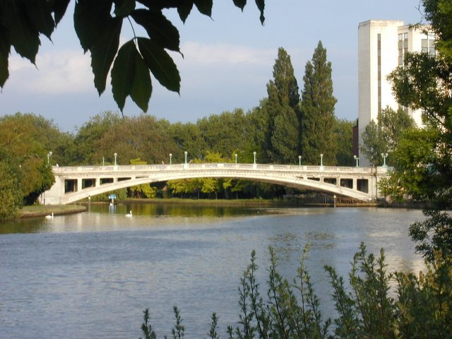 Reading Bridge. Viewed from the southern bank on the west side.